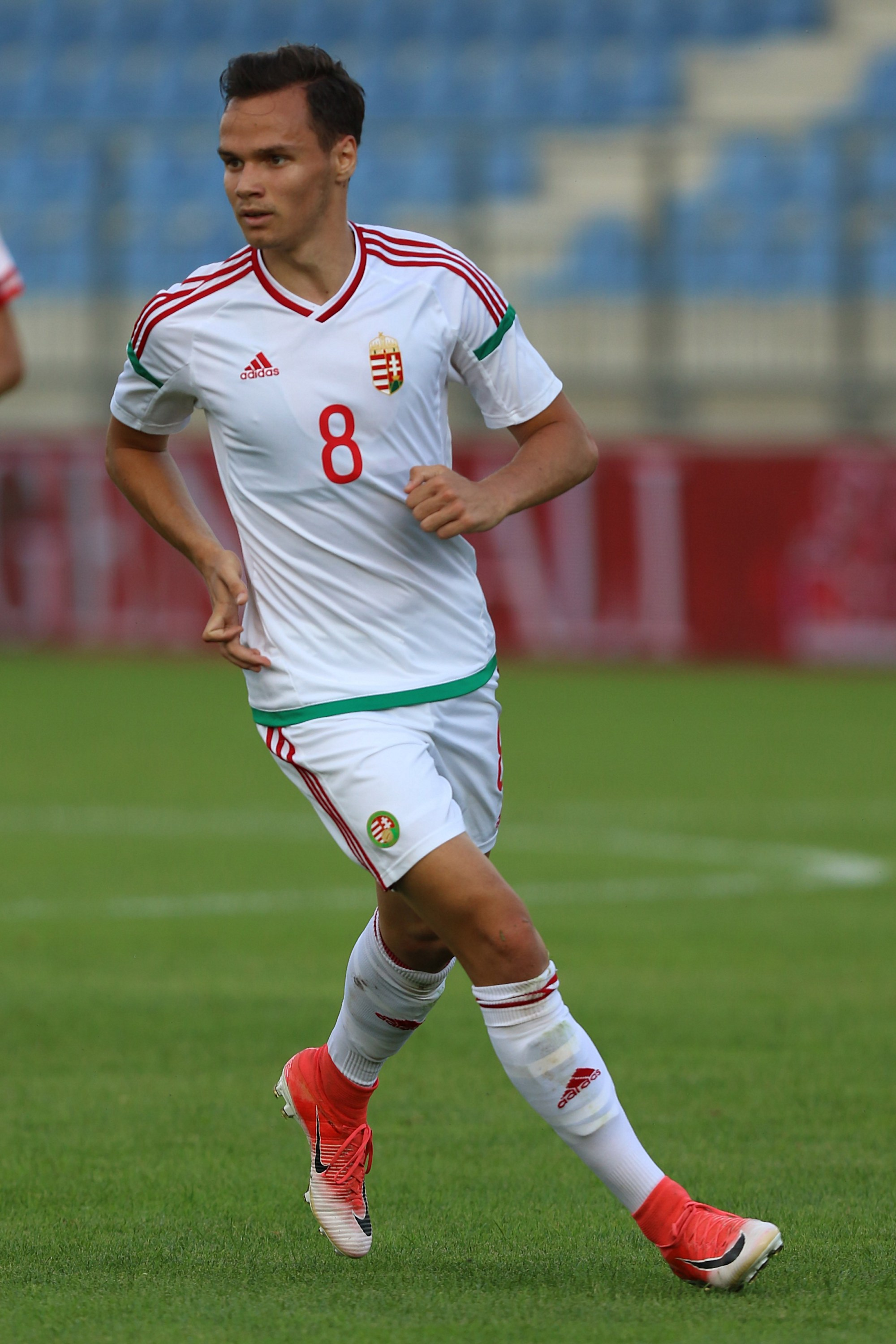 Friendly match: Austria U-21 (red shirts) vs. Hungary U-21 (white shirts) at 12. June 2017 in the Sonnenseestadion in Ritzing 2:1 (1:1) – The photo shows Máté Tóth (Haladás Szombathelyi)